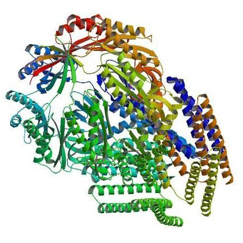 MscS in close state